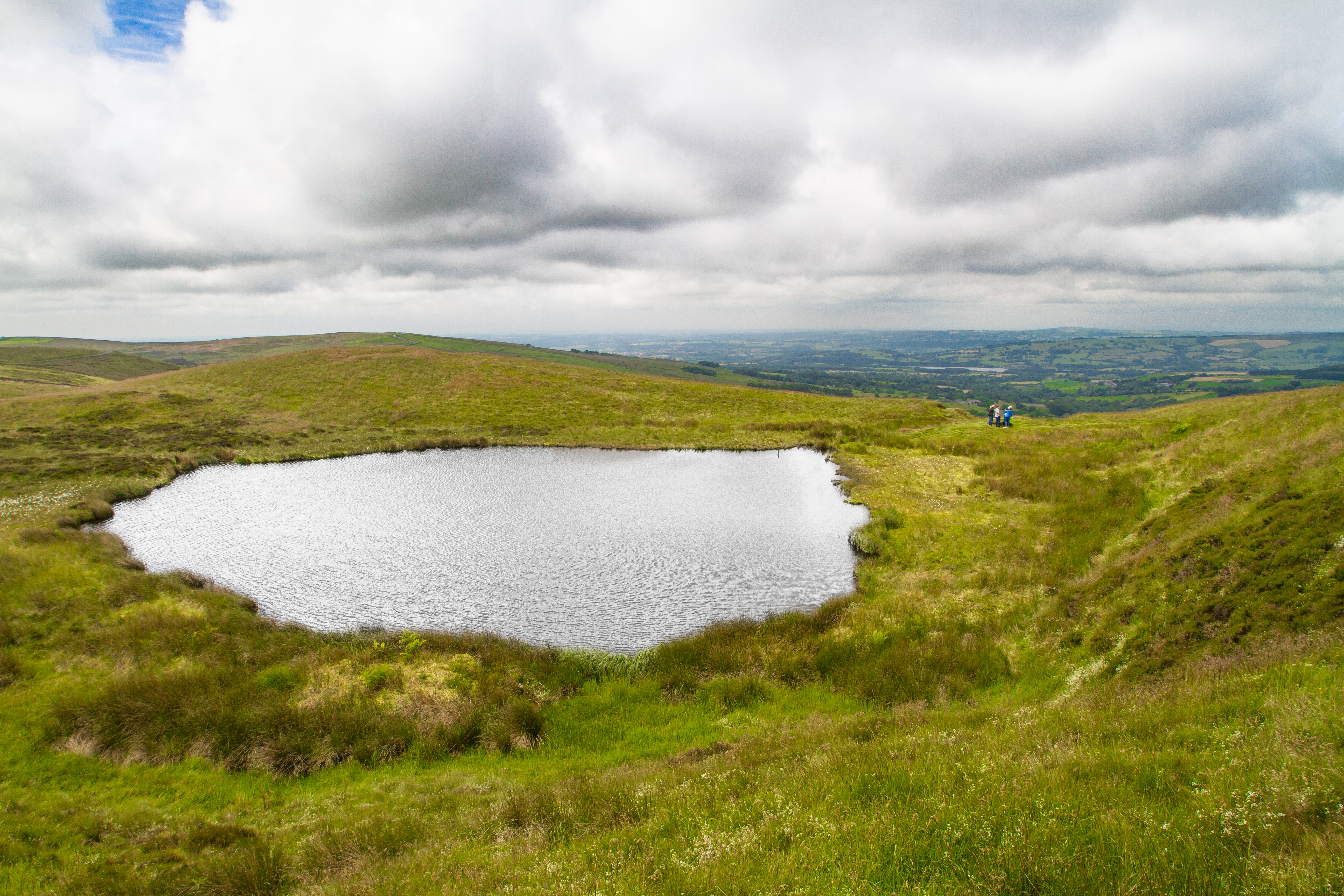 Blackmere Pond at coordinates: 53.148485, -1.941807